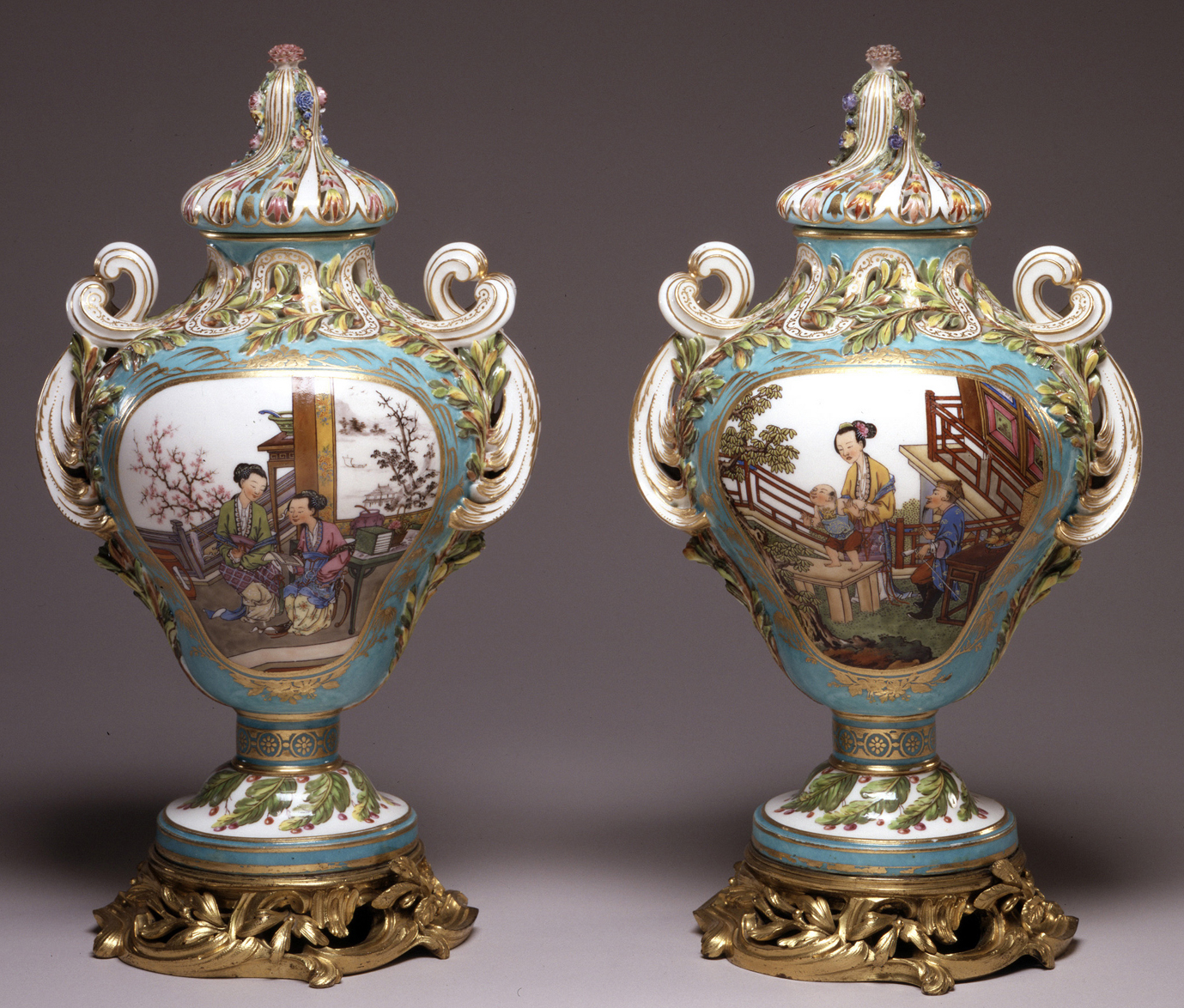 This pair of scent vases, which was intended to hold myrtle leaves, is in a robin's egg blue found in other works from 1761. The Chinese scenes painted in the reserves are attributed to Charles Nicolas Dodin and are unused in that they may have been inspired by an Oriental prototype